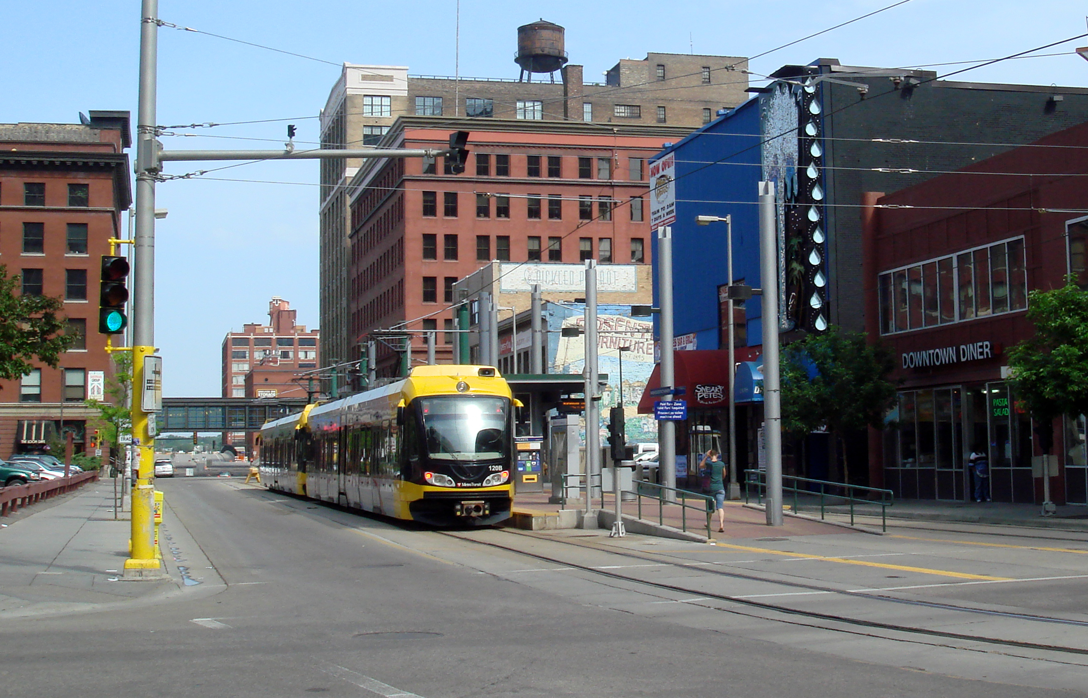 The Warehouse District/Hennepin Avenue station of the Hiawatha Line in Minneapolis, Minnesota.